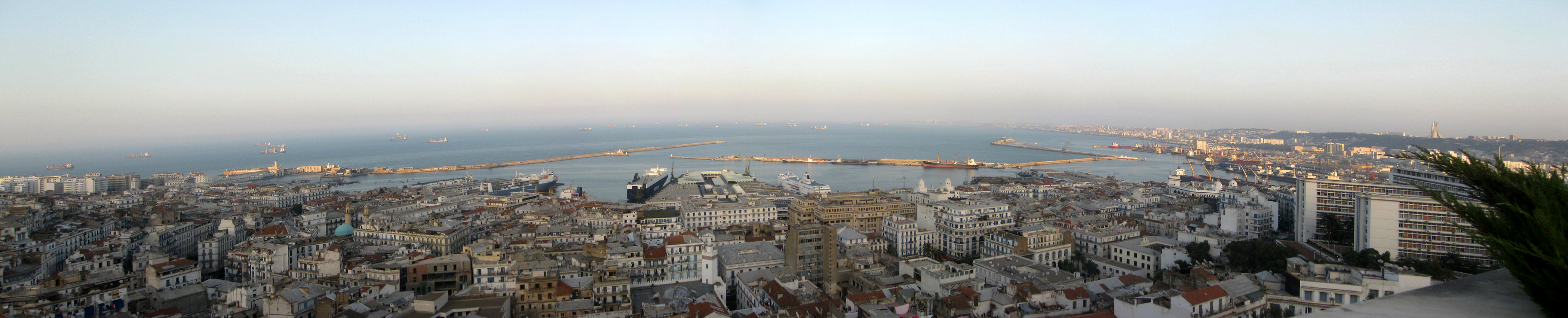 Panorama done by myself (Clapsus) of Algiers bay from les higher place Bab Jedid